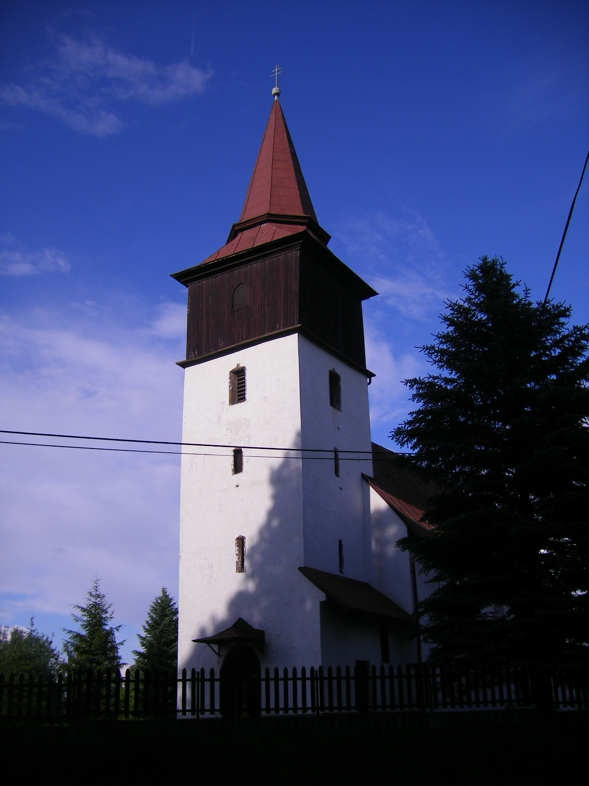 Turčiansky Peter - catholic church